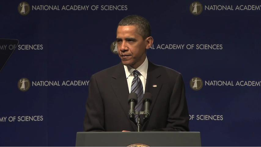 President Barack Obama speaking at the National Academy of Sciences, at the time of this screenshot in the video, addressing the swine flu outbreak.